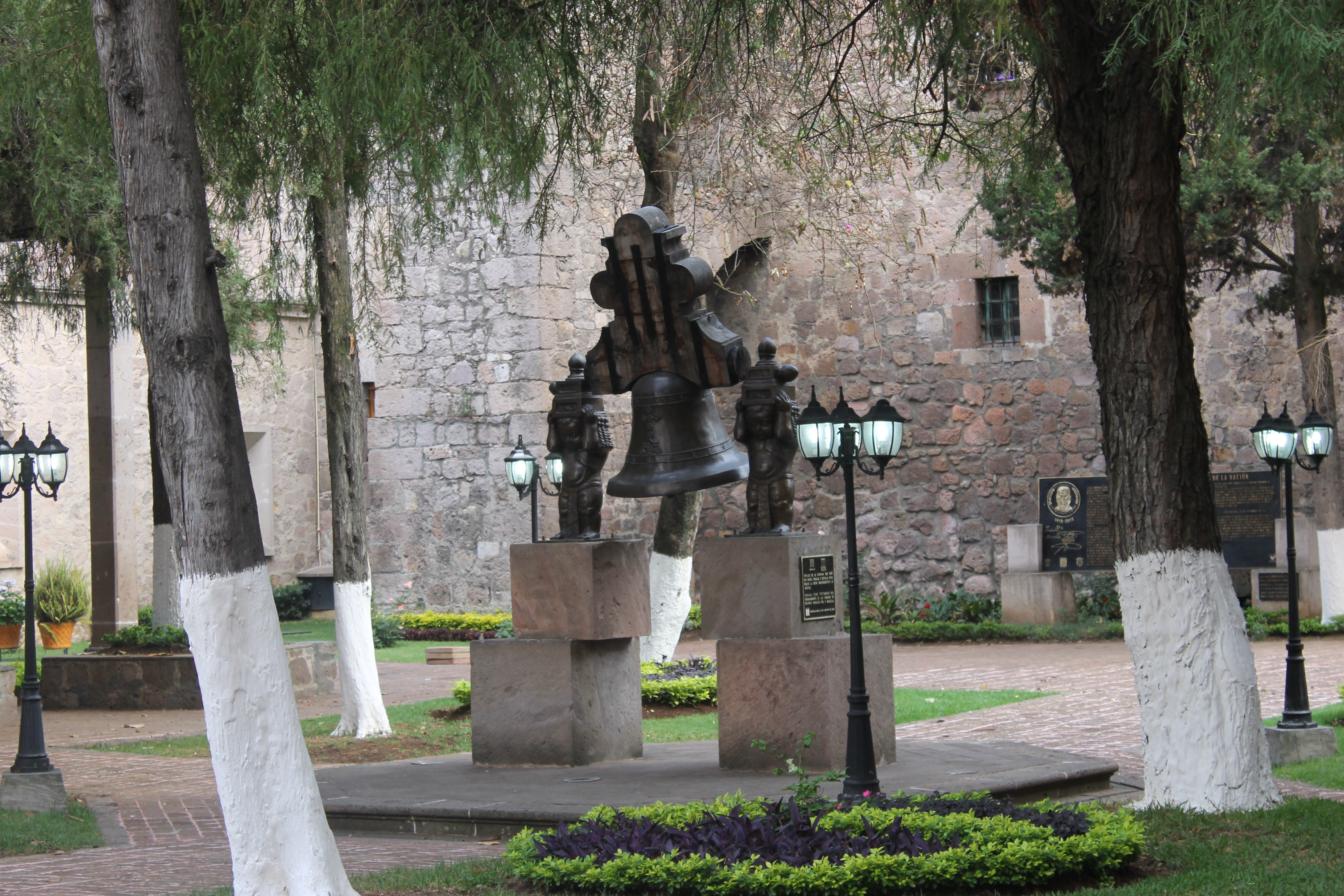 Dolores hidalgo's bell replica, donated to Moreliafor Bientenary.